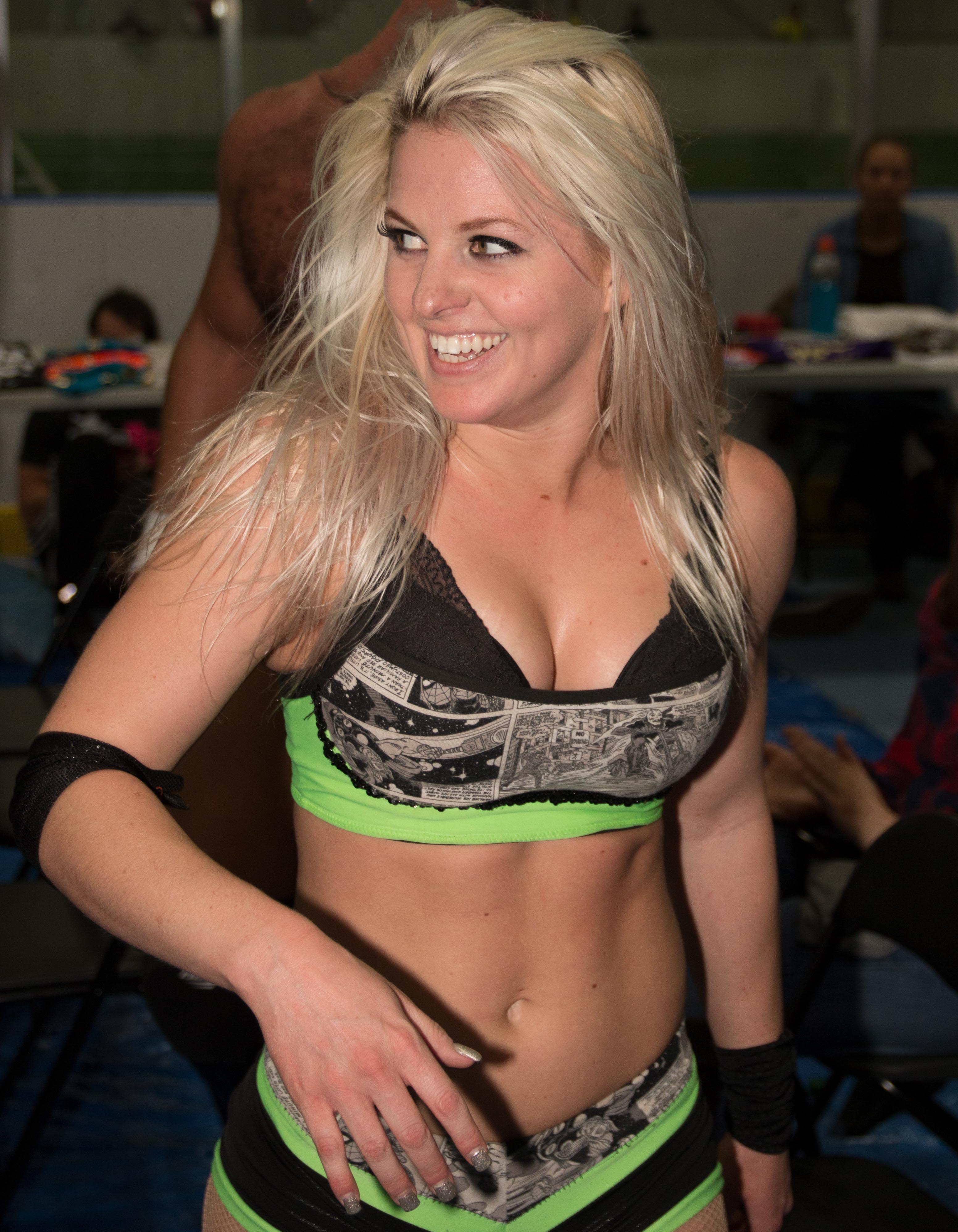 Candice LeRae at Smash Wrestling's Challenge Accepted show